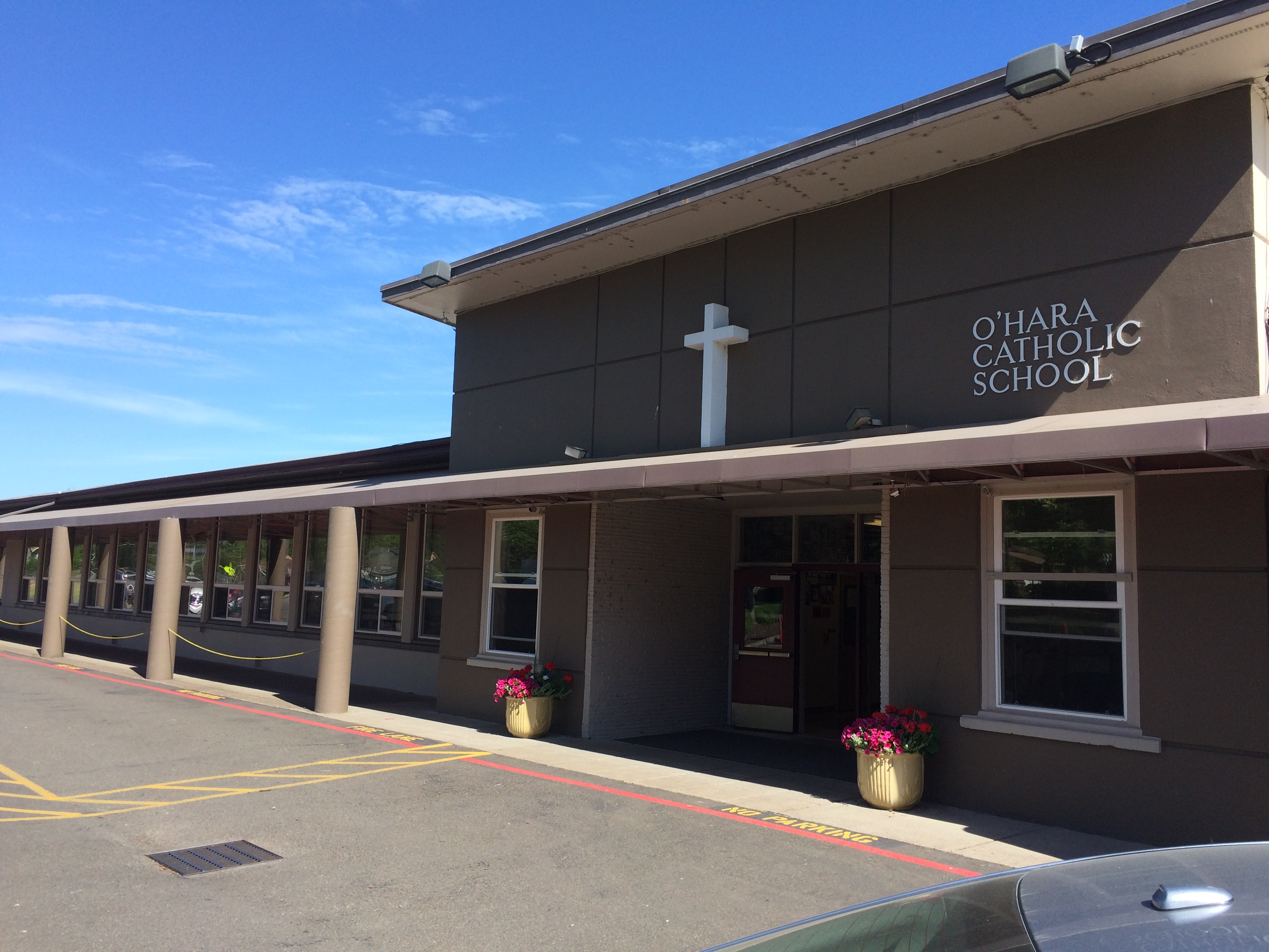 This is a picture of the front of the building of O'Hara Catholic School in Eugene Oregon